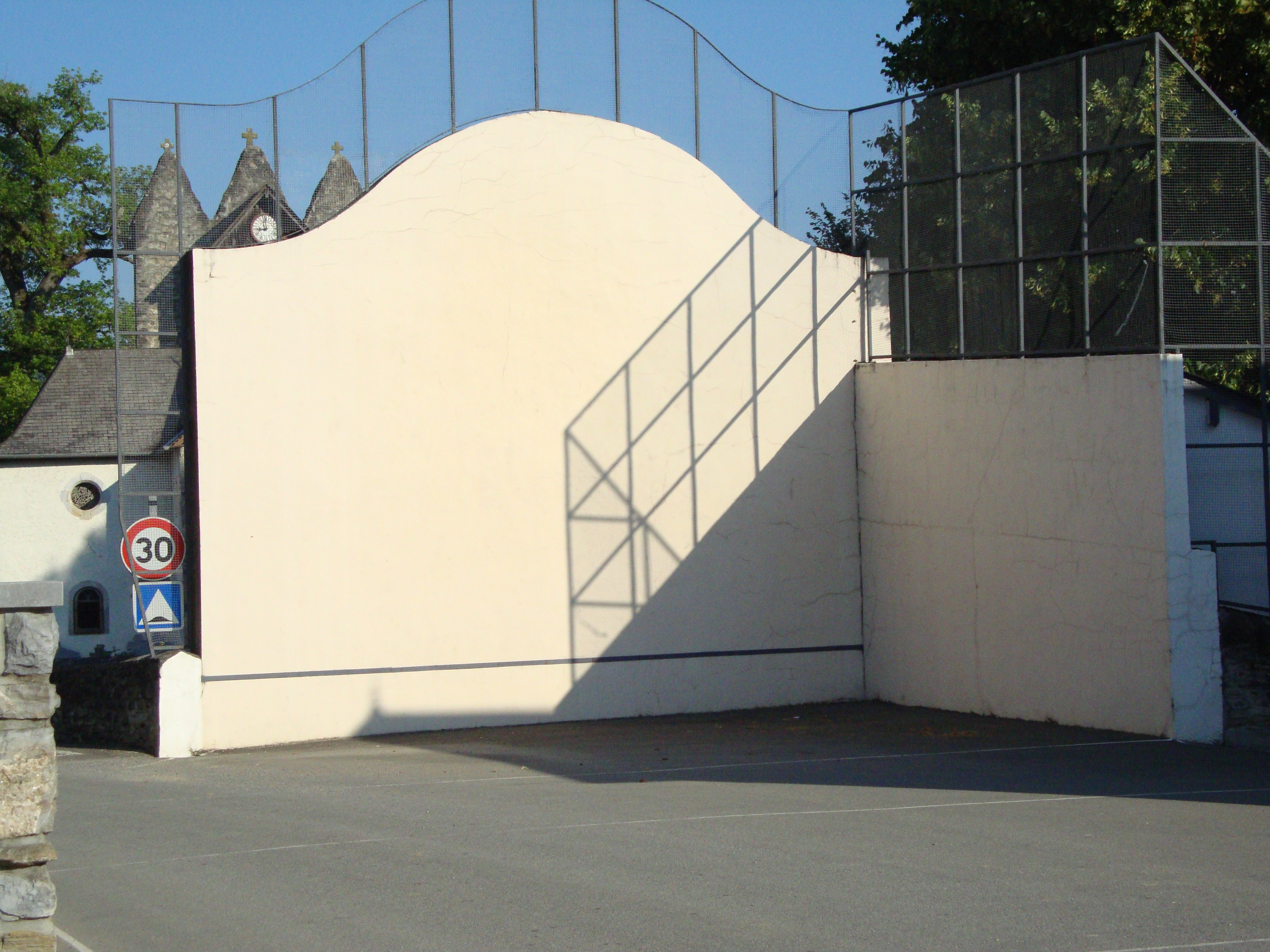 Libarrenx (Gotein-Libarrenx, Pyr-Atl, Fr) pelota court